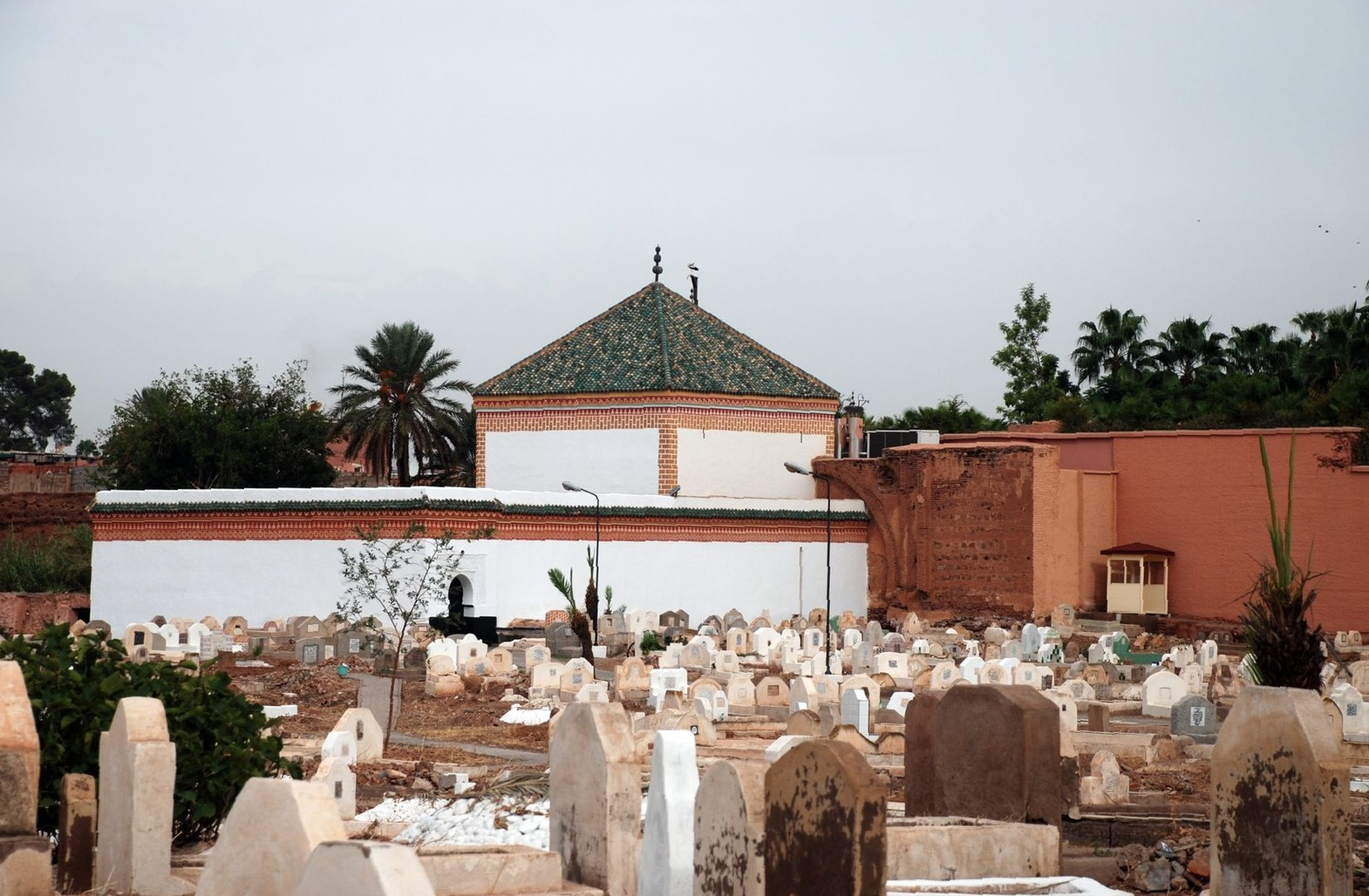 Marrakech, tomb of Abu-l-Qasim Abd ar-Rahman as-Sohaili